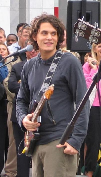 John Mayer performing on the CBS Early Morning ShowNewYork 1048